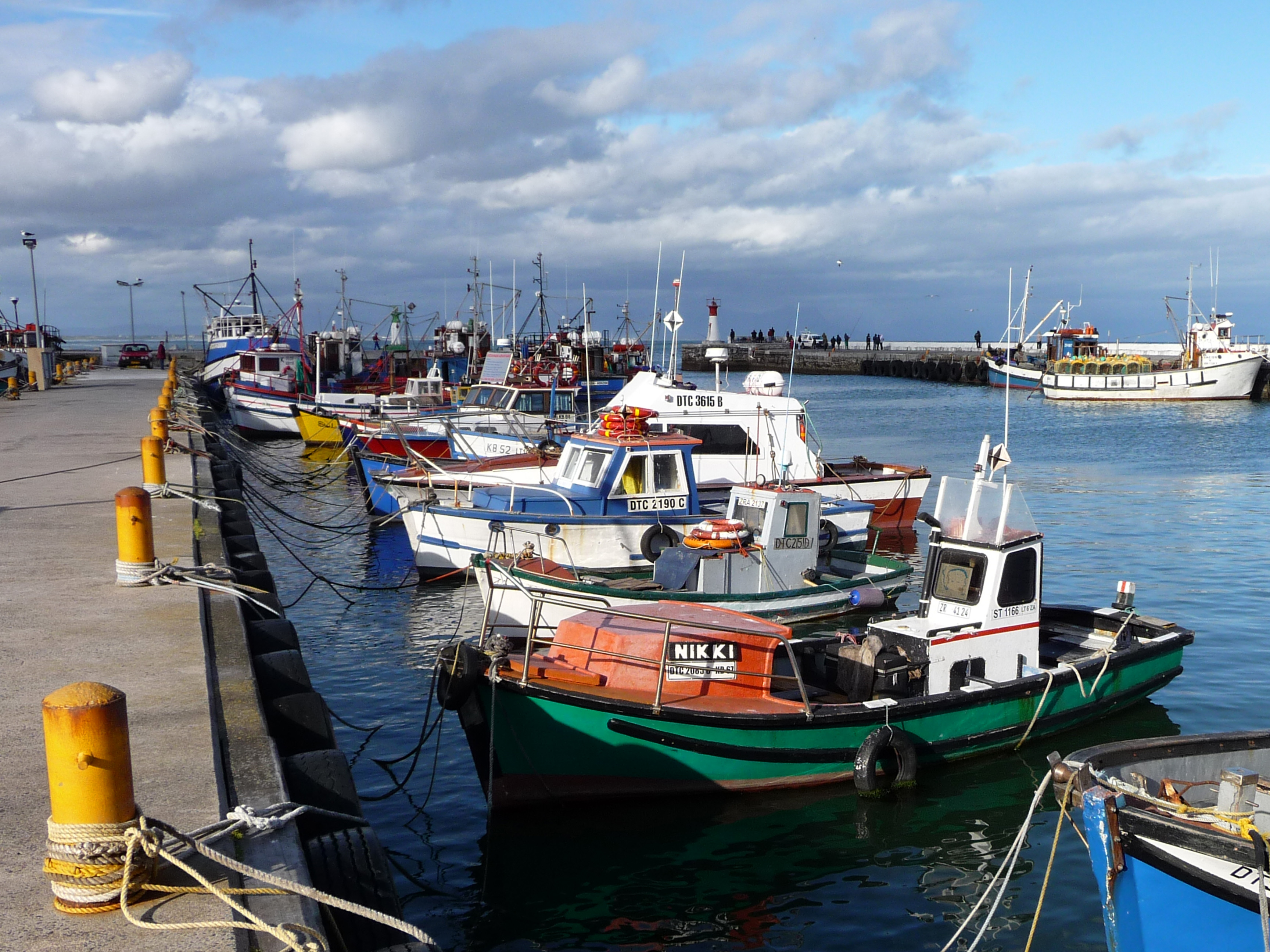 Kalk Bay habour, Cape Peninsula, South Africa